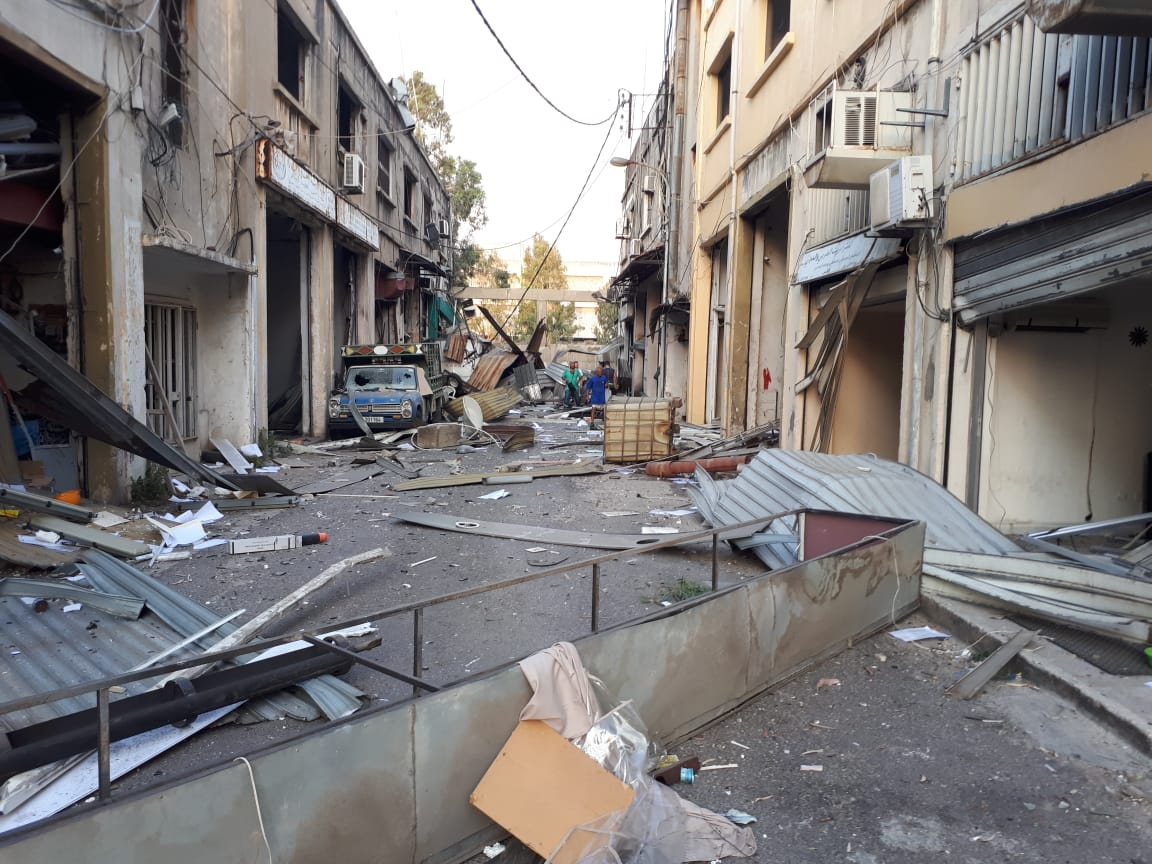 Aftermath of the 2020 Beirut explosions